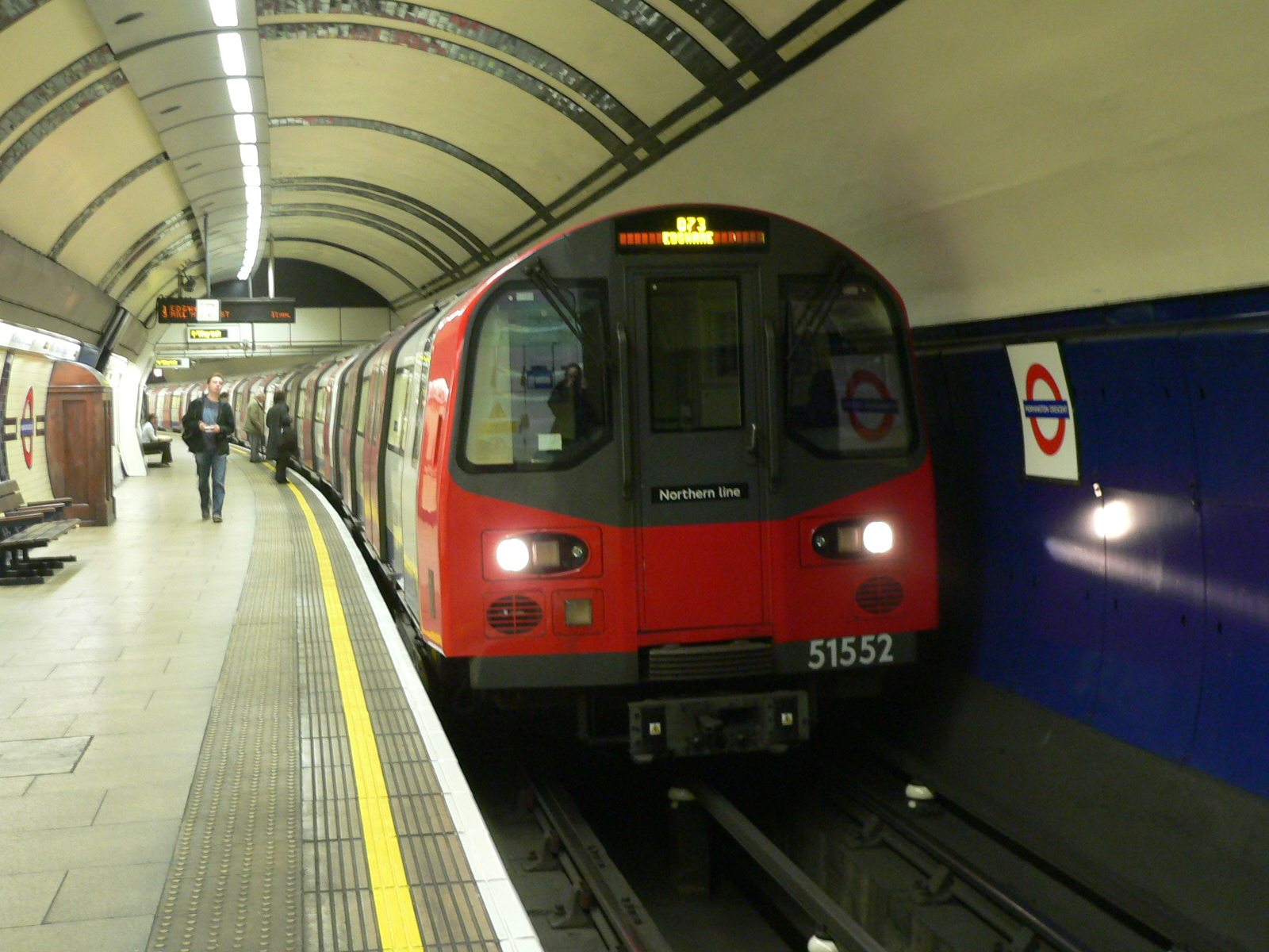 London Underground 1995 tube stock train 51552 at Mornington Cresent station with a northbound Northern Line service on 24 October 2005.